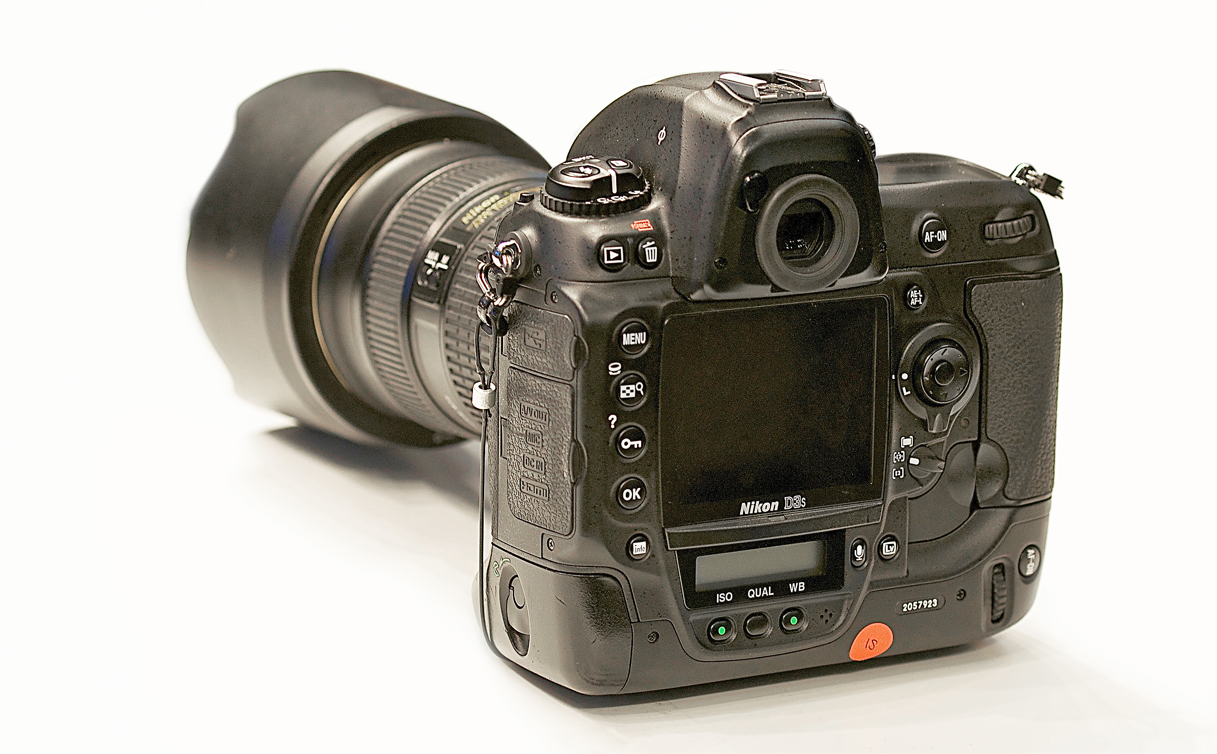 Nikon D3s